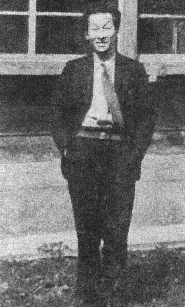 a writer from Japan,北洋（Hiroshi Kita）